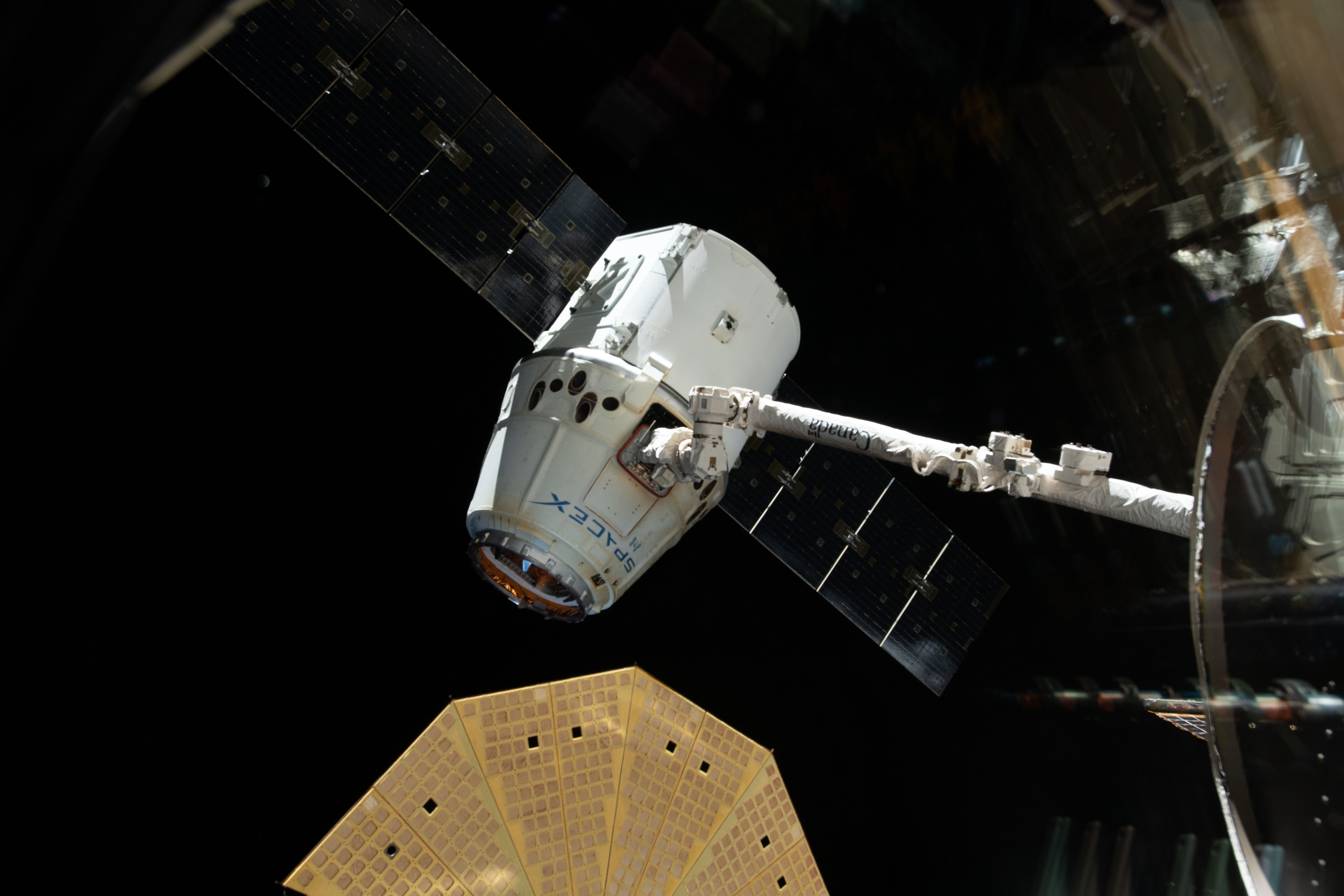 The SpaceX Dragon cargo craft is pictured in the grips of the Canadarm2 robotic arm before its release and departure from the International Space Station. Featured prominently in the lower foreground is one of two cymbal-shaped UltraFlex solar arrays attached to the Northrop Grumman Cygnus resupply ship. The orbital complex was orbiting 254 miles above East Asia at the time this photograph was taken.